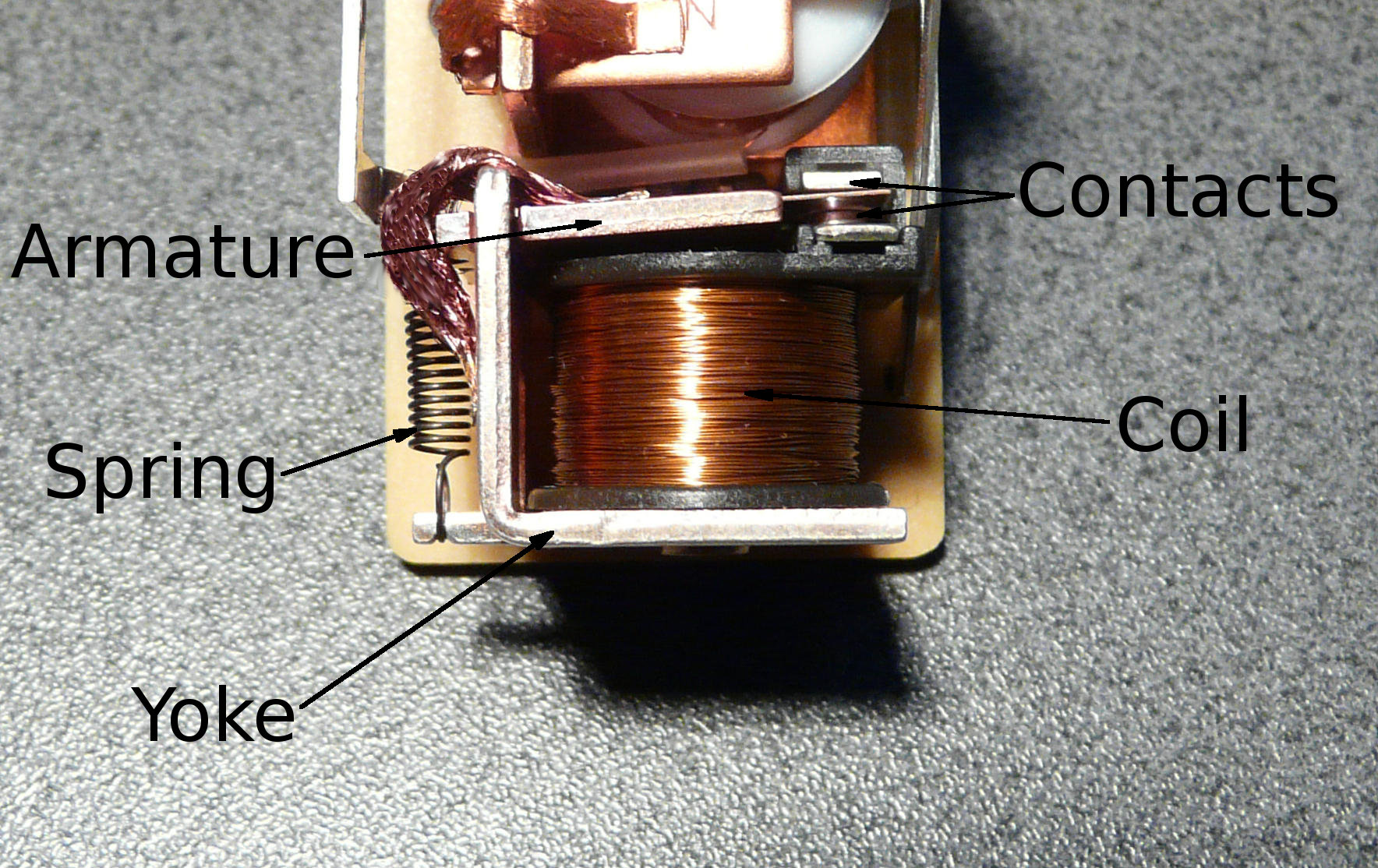 Picture of a simple electromechanical relay relay with the main parts named. Note the top line pointing at the contacts is drawn to high.